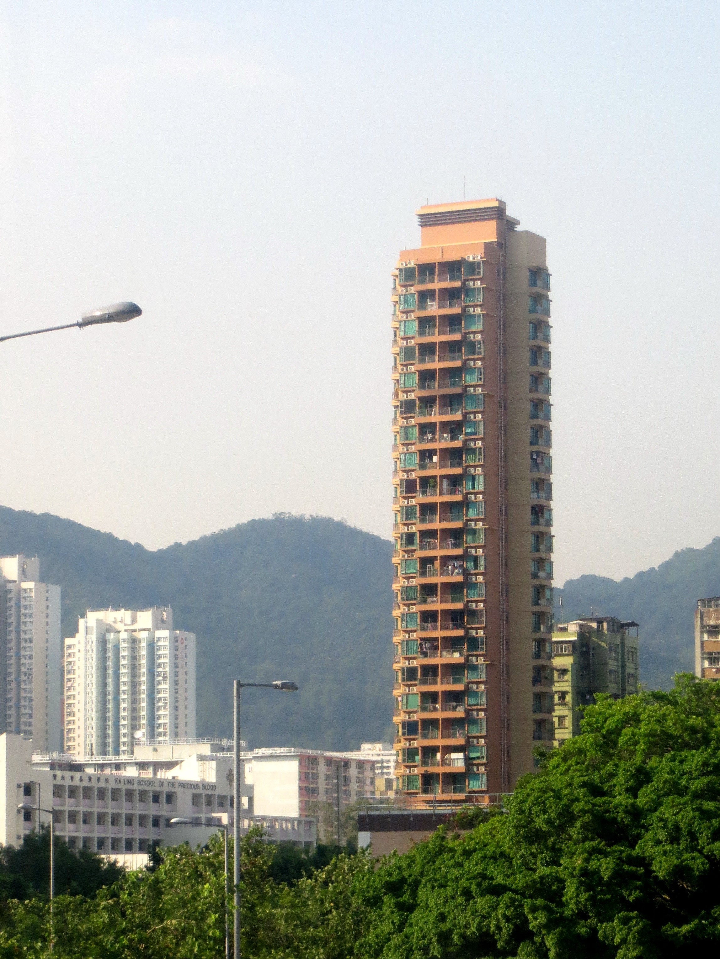 The Prominence, Tung Chau Street, Sham Shui Po, Kowloon, Hong Kong.